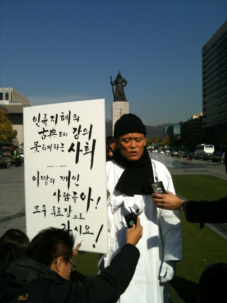 Do-ol Kim Yong-ok is performing one-person demonstration in Seoul on 2011-10-26.